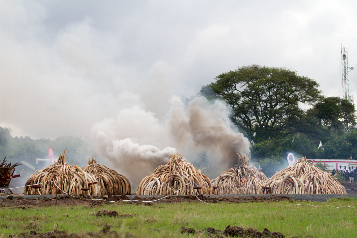 105 tons of ivory and 1 ton of rhino horn burn in Nairobi National Park on 30th April 2016. They were set ablaze by President Uhuru Kenyatta in the largest ivory burn in hisory.